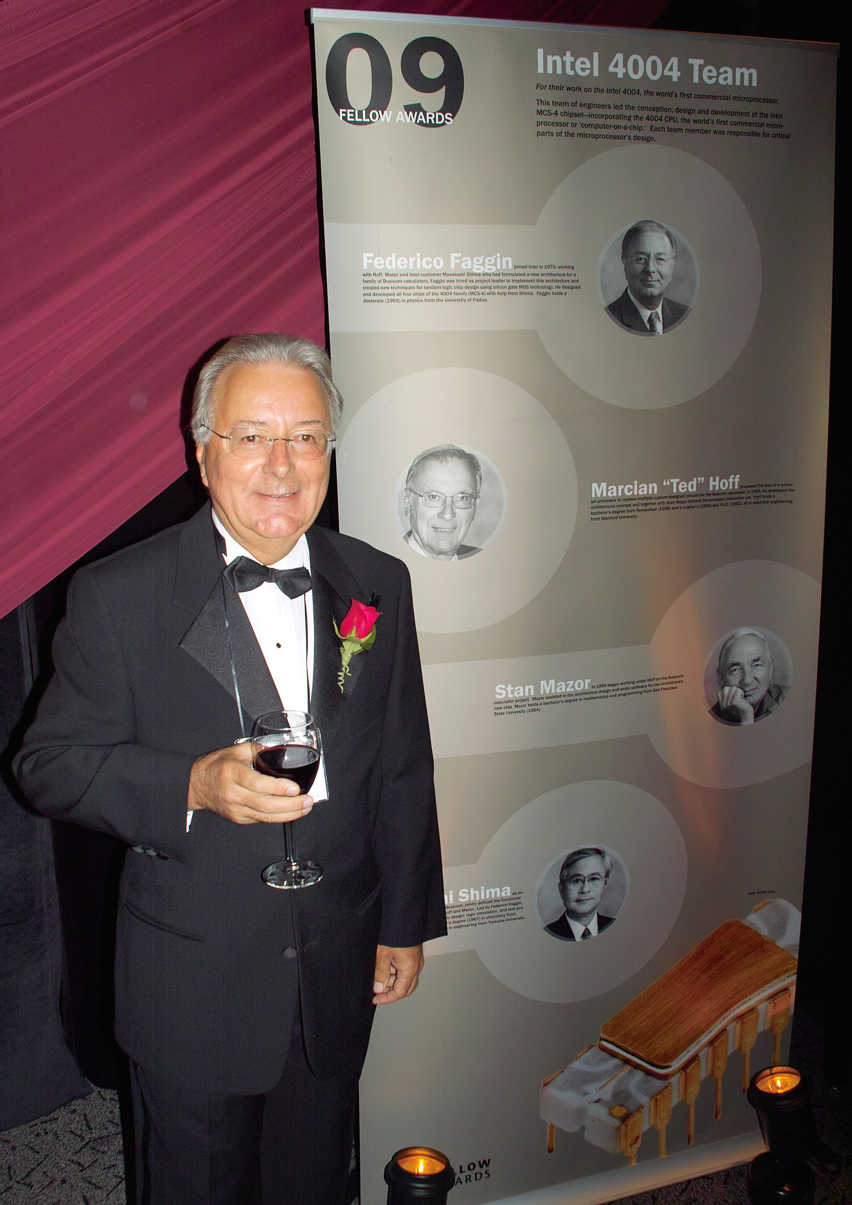 Federico Faggin, at the Computer History Museum's 2009 Fellows Award event, where he was inducted a Fellow.